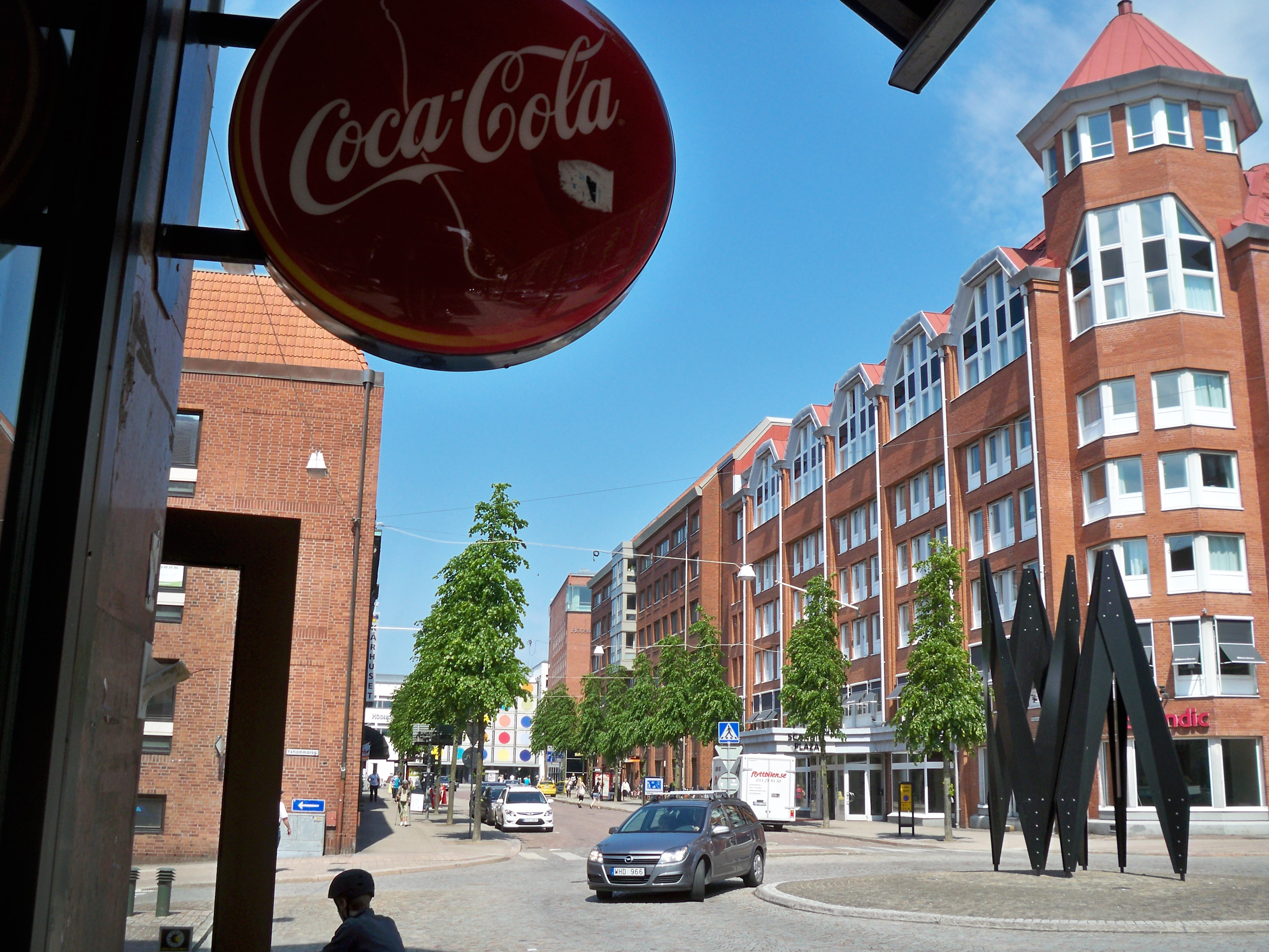 The black five metre high sculpture Stable (2010) by the Swedish sculptor Lars Englund (*1933) in the crossing of the streets Yxhammarsgatan and Allégatan in Borås, Sweden.